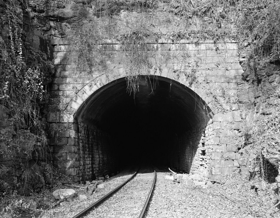 Perkasie Tunnel, Perkasie, Pennsylvania, USA